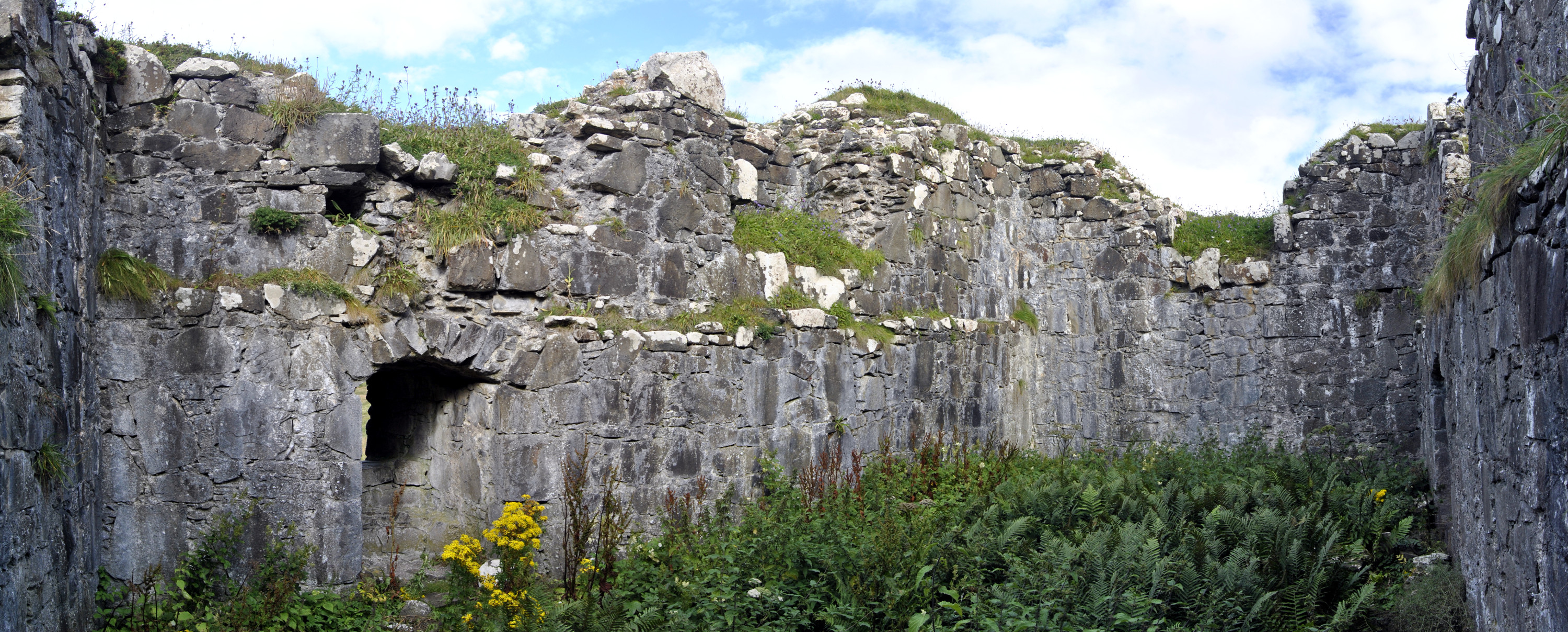 Interior view of Caisteal Uisdein, Uig, Skye.